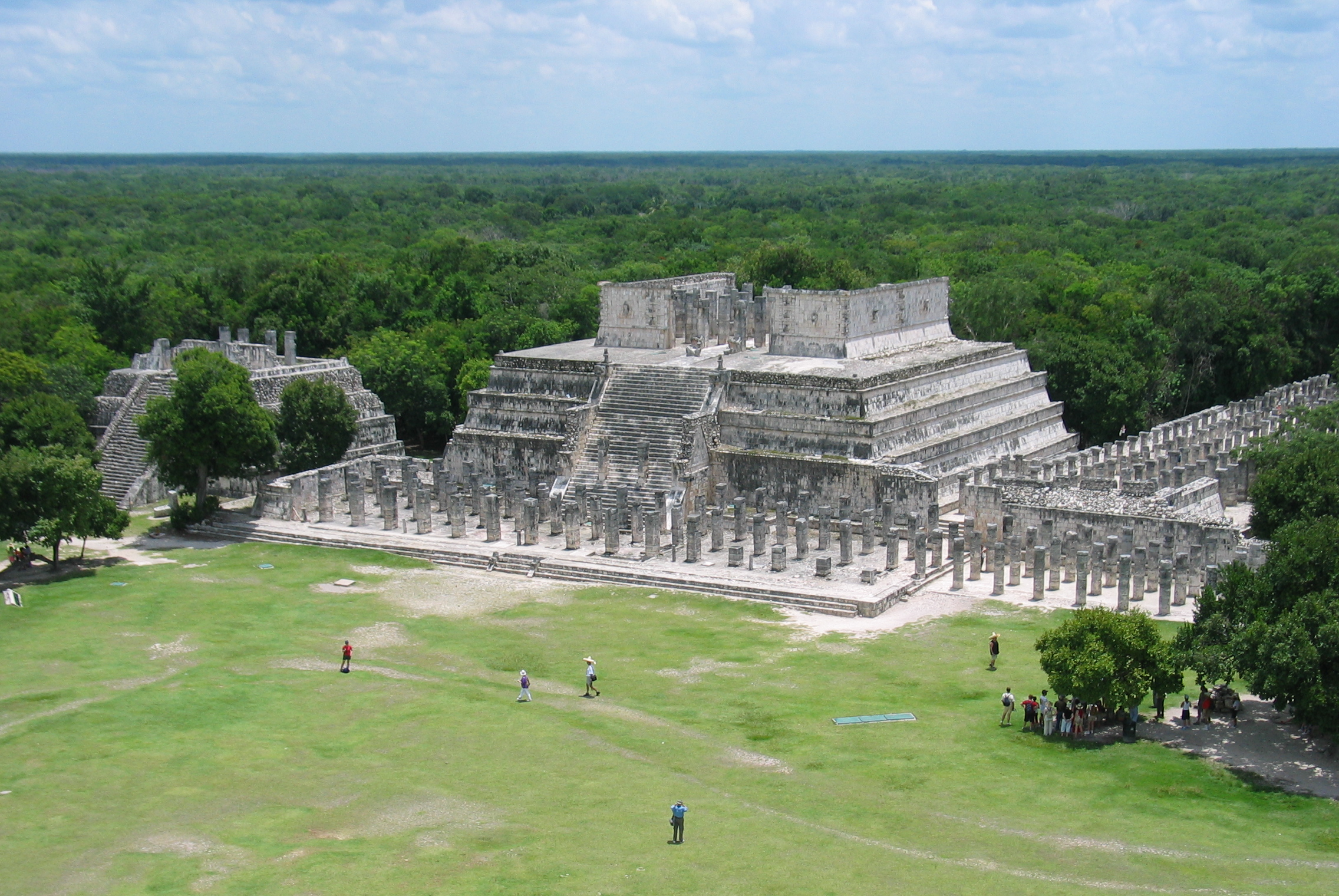 Templo de los Guerreros (Temple of the Warriors) at Chichén Itzá.